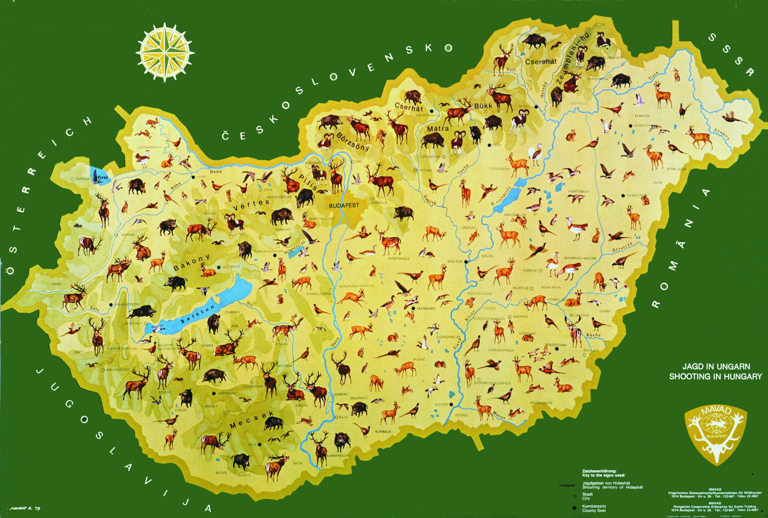 shooting in hungary